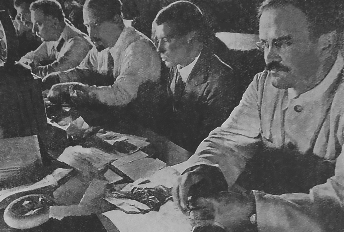 Kliment Voroshilov, Lazar Kaganovich, Alexander Kosarev and Vyacheslav Molotov on the 7th Conference of the All-Union Leninist Young Communist League (Komsomol).